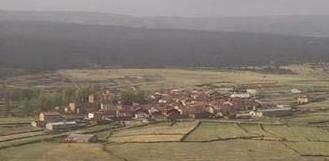 The village